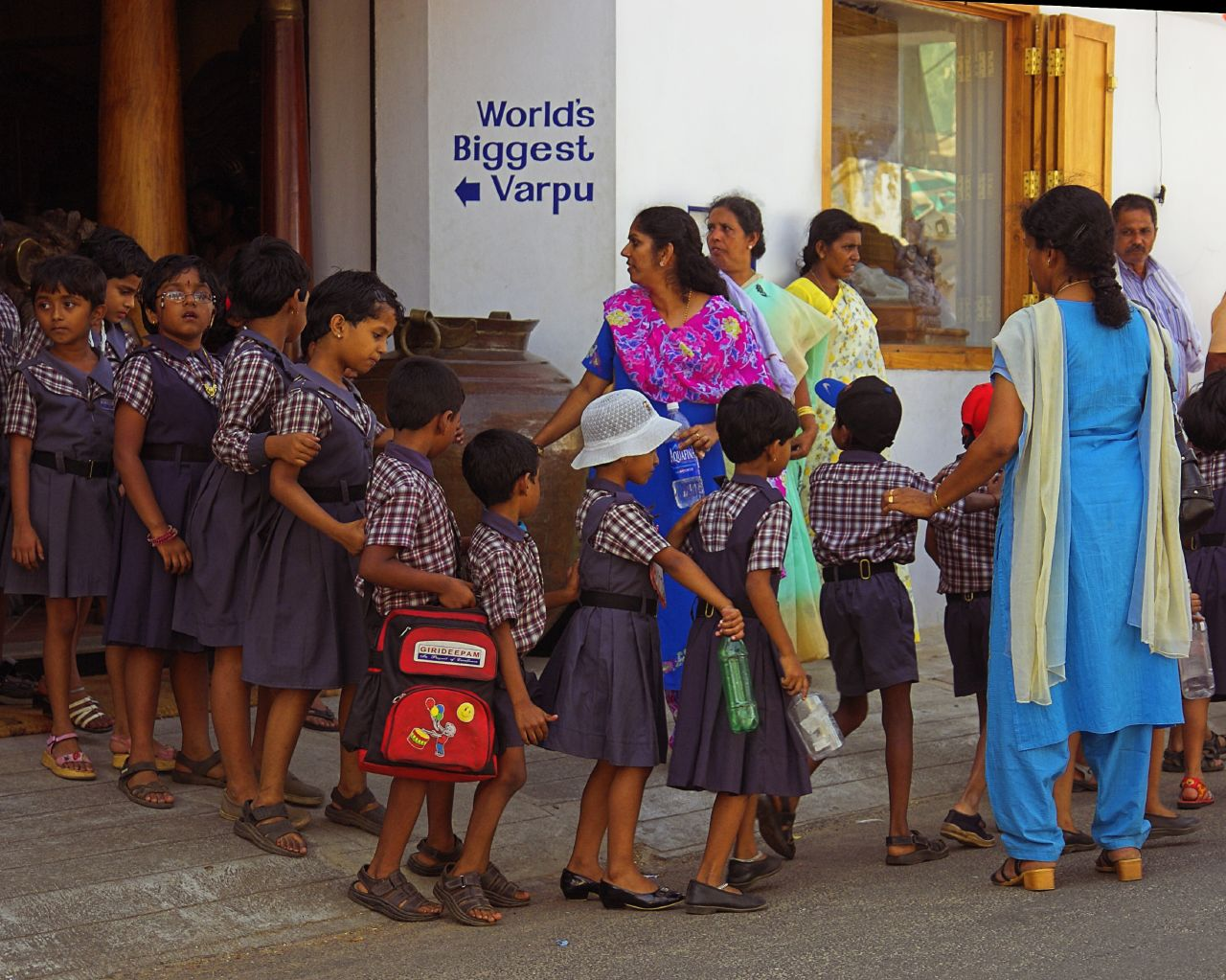 School children line up in Cochin Kerala India